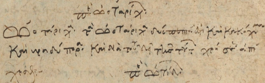 Alphabetical outline of the properties of foods BNF_MS_suppl_grec_634_f_254v detail: botargo